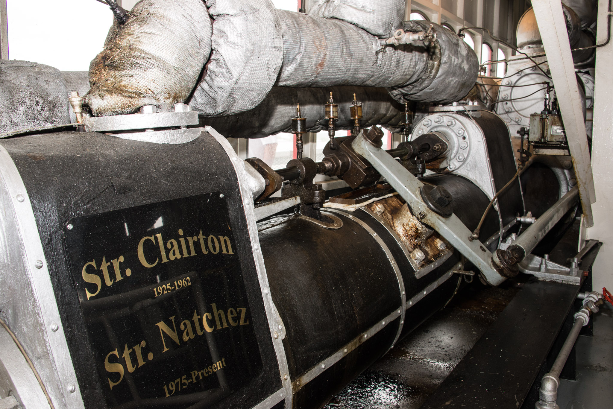 This is one of the two tandem-compound steam engines on the Steamboat Natchez. Each engine produces 1600 horsepower and has the dimensions 7 feet by 30 inches by 15 inches. The engines were made in 1927 and powered the towboat Clairton until 1962. In 1975, the engines were installed in the Natchez when it was built. Water is heated by an oil-heated boiler.The Steamboat Natchez was built in 1975. The boat is powered by a steam-powered rear paddle wheel. The Natchez sails from the French Quarter in New Orleans, Louisiana.